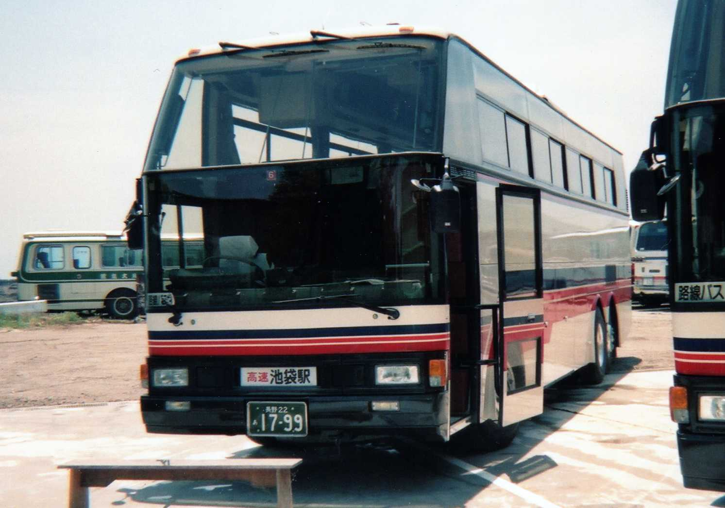 Chikuma Bus Nissan Diesel P-DA67UE at Komoro Branch This picture is obtaining and photoing permission of the persons concerned.